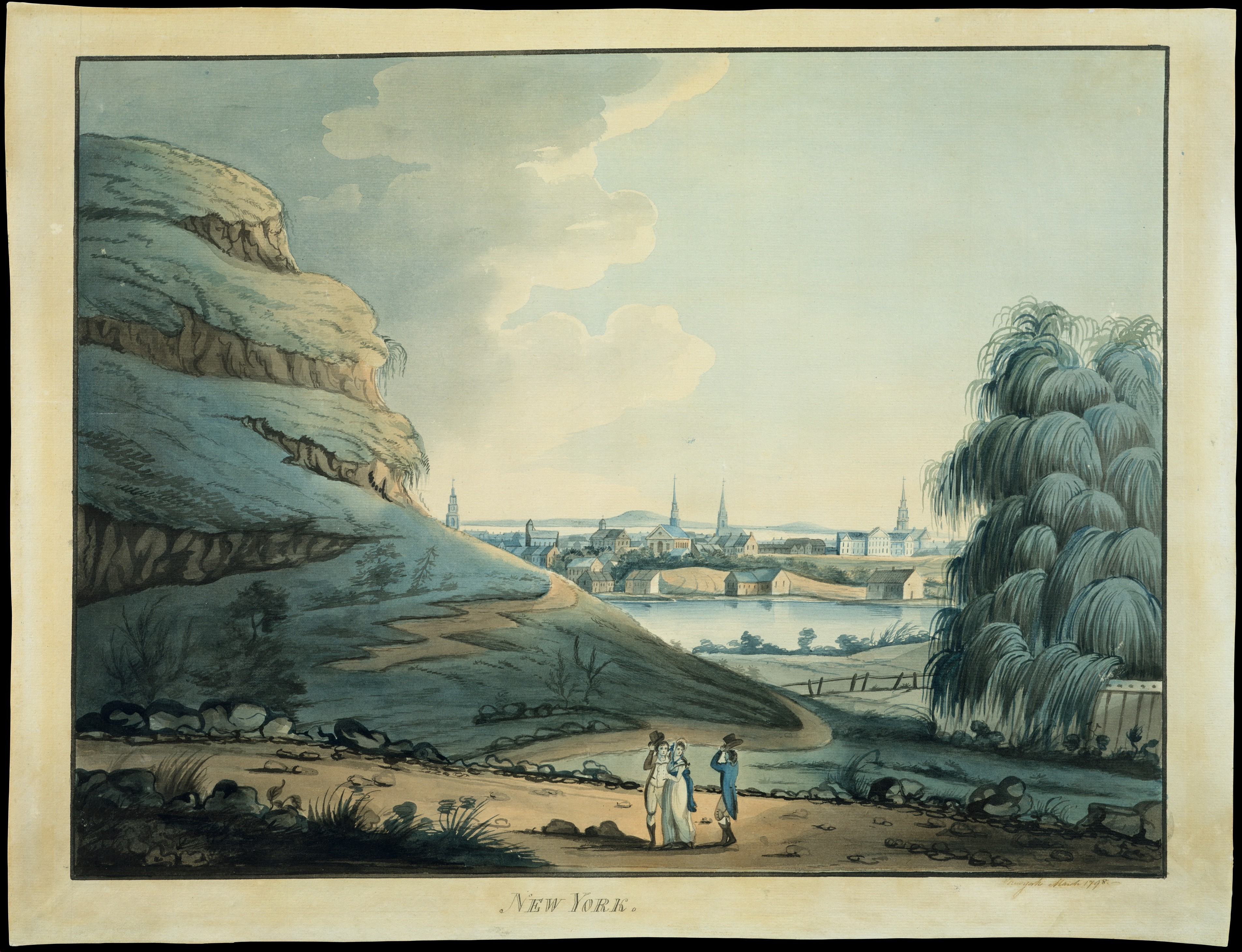 The natural pool Collect Pond was located in lower Manhattan near present-day Foley Square. This watercolor of the site exemplifies the formulaic method of drawing taught at the Columbian Academy of Painting in New York City, founded by the brothers Archibald and Alexander Robertson. Both the hill at left and the willow tree at right were rendered in highly stylized fashion, with broad contours and schematic curving lines. Spatial depth was achieved with swaths of dark wash in the foreground, setting off the lighter forms in the distance. Indeed, the whole picture observes a kind of artistic etiquette embodied in the polite company of figures in the foreground.